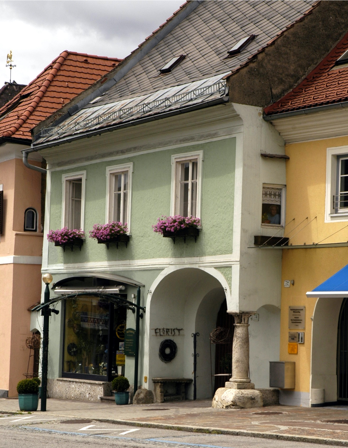 House in Kindberg Austria Styria